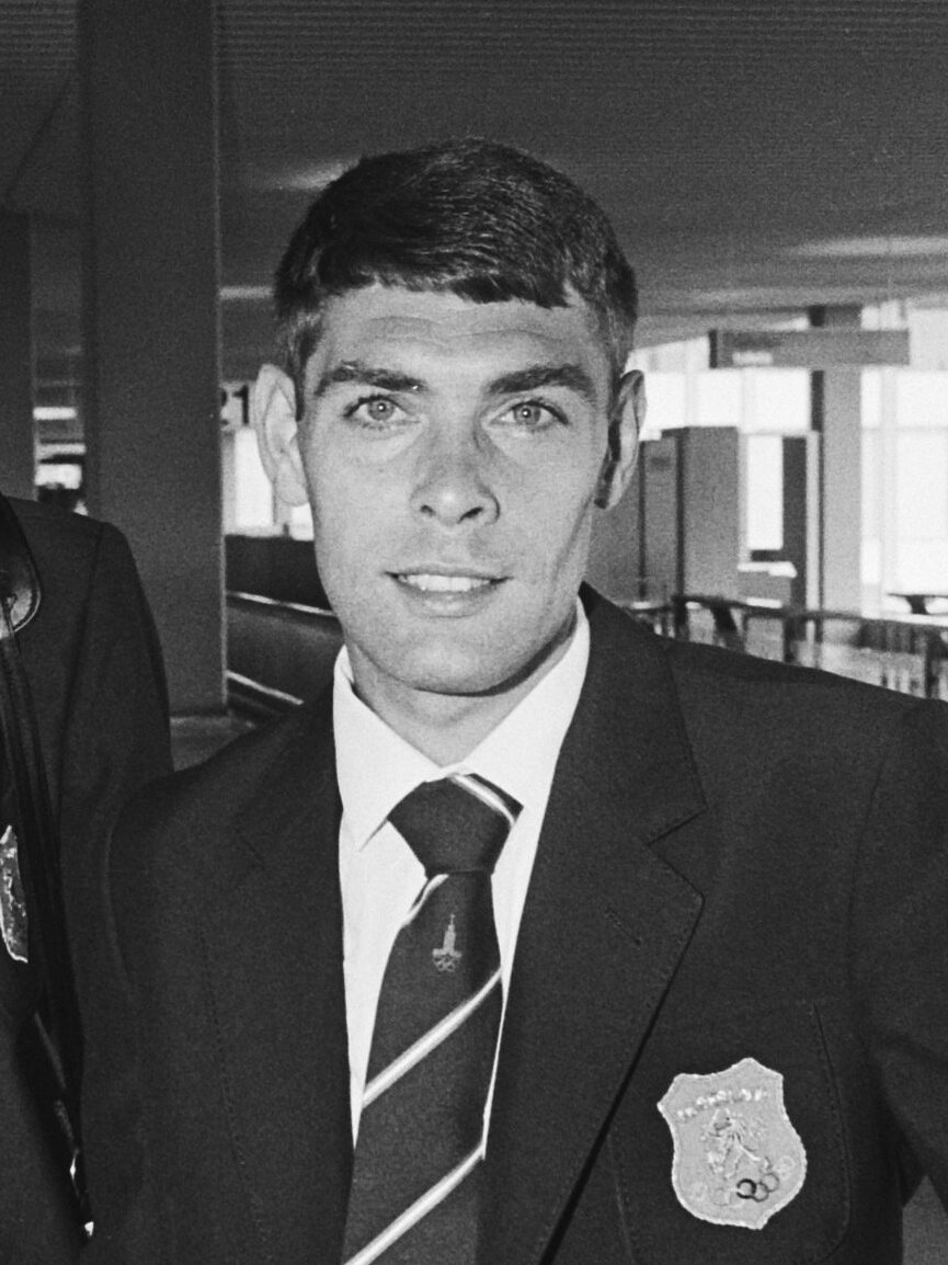 Cor Vriend